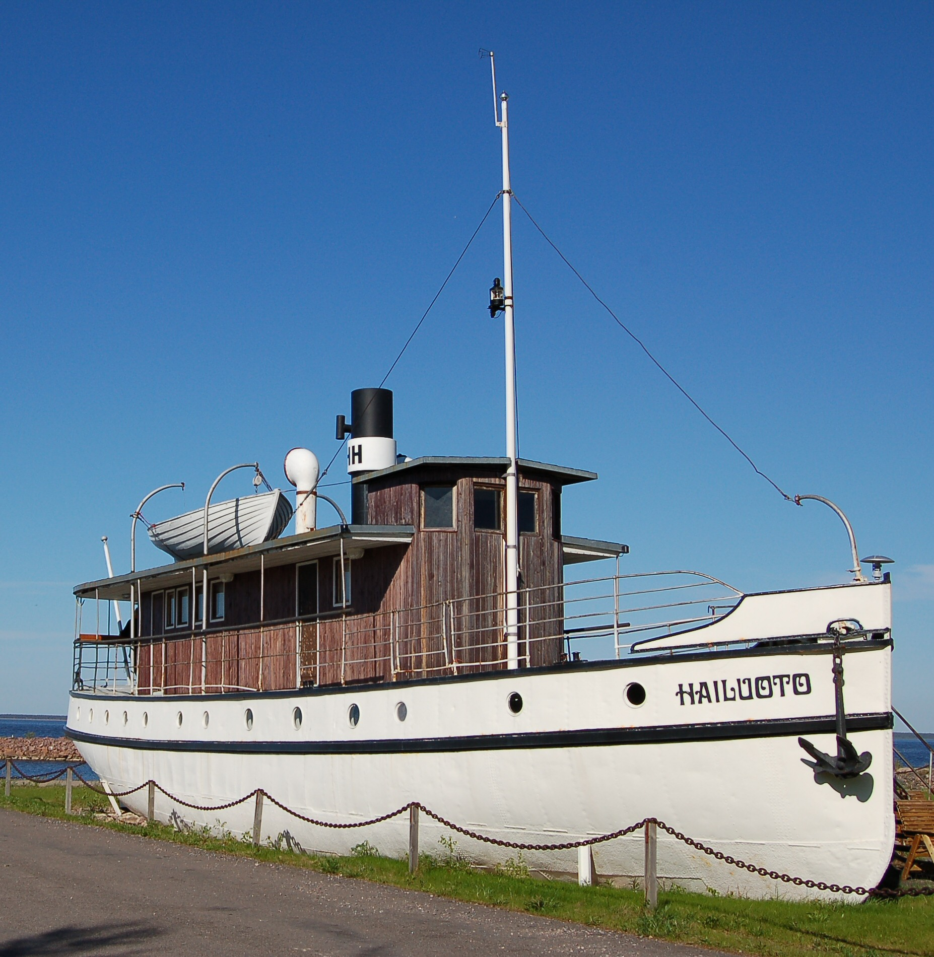 Packet steamer Hailuoto, built in 1920, serves as a café on dry land in Varjakka, Lumijoki, Finland.